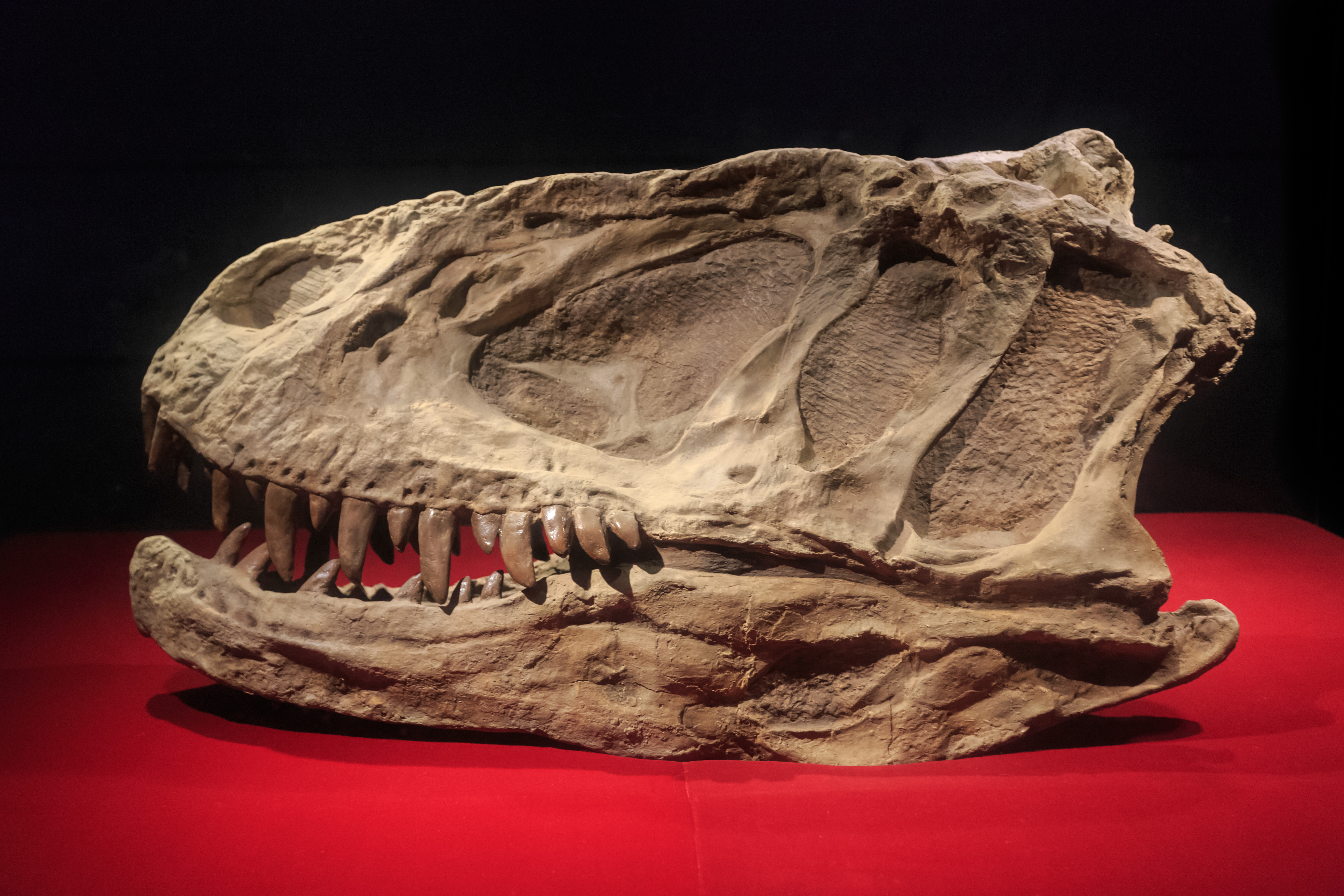 Skull of Yangchuanosaurus hepingensis. Symtemtic position: Megalosauridae, Theropoda, Saruischia. Locality: Heping, Zigong, Sichuan, China. Age: Late Jurassic (about 150 million years ago). Yangchuanosaurus hepingensis is a large carnosaur dinosaur of the Late Jurassic. Its skull is low and heavilly built with relatively large sharp dagger-like teeth. This skull of 104cm long is the best-preserved skull of large carnosaur dinosaur so far known in the world.